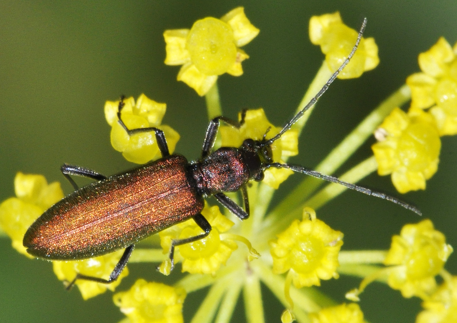 Chrysanthia viridissima (Linnæus, 1758). Germany: Hessen, Kreis Eschwege, Schloss Berlepsch near Witzenhausen.